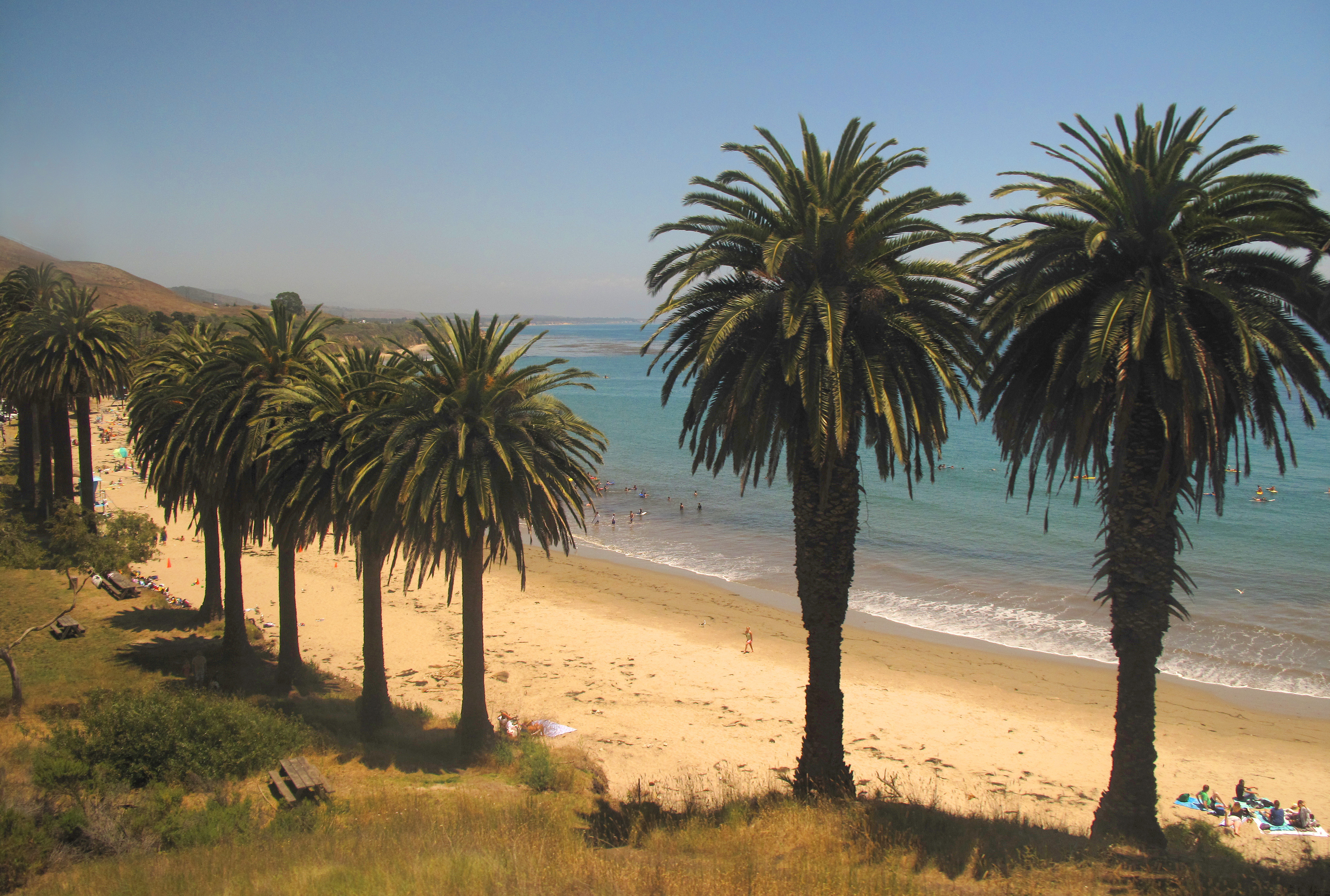 Surfers a few miles south of Gaviota, California Refugio State Beach. Please add the right beach category.